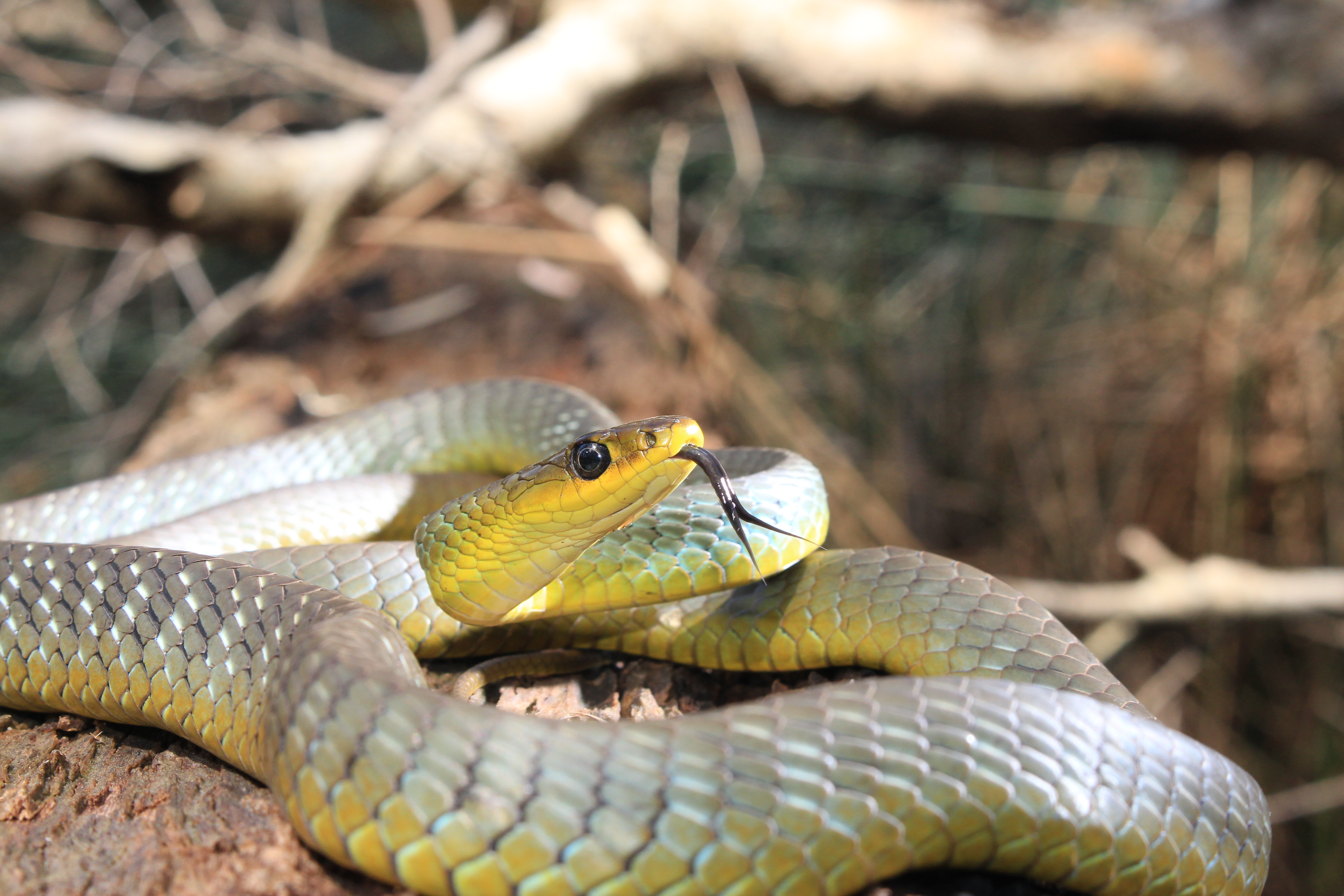 This striking Green Tree Snake (Dendrelaphis punctulatus) was found at Awabakal nature reserve, in Dudley NSW. This snake was found lurking around the edges of a swap, most likely after a frog or skink to satisfy its appetite.